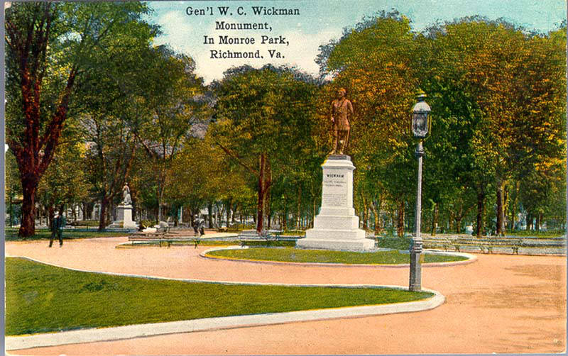 Description: Unveiled in Monroe Park, Oct. 29, 1891. It represented this distinguished 'Soldier, Statesman, Patriot, Friend' in Confederate uniform. It was erected to his memory by survivors of his cavalry brigade and employees of the C&O Railroad, of which he was 2nd Vice-president at the time of his death. Manufacturer: Louis Kaufmann & Sons, Baltimore, MD. Date Postmarked: Not postmarked. Rights: This item is in the public domain. Acknowledgement of the Virginia Commonwealth University Libraries as a source is requested. Reference URL: Collection